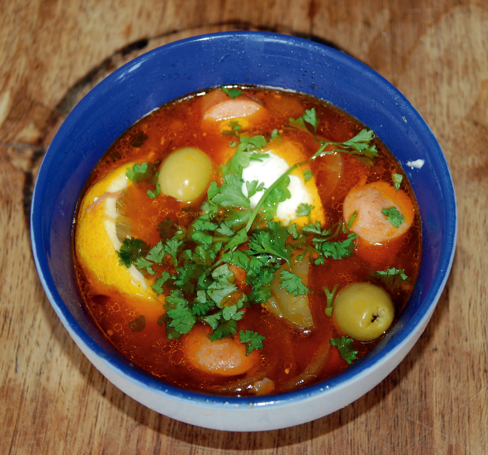 A bowl of soljanka with pickled cucumbers, olives and lemon (Russian & Ukraine cuisine).